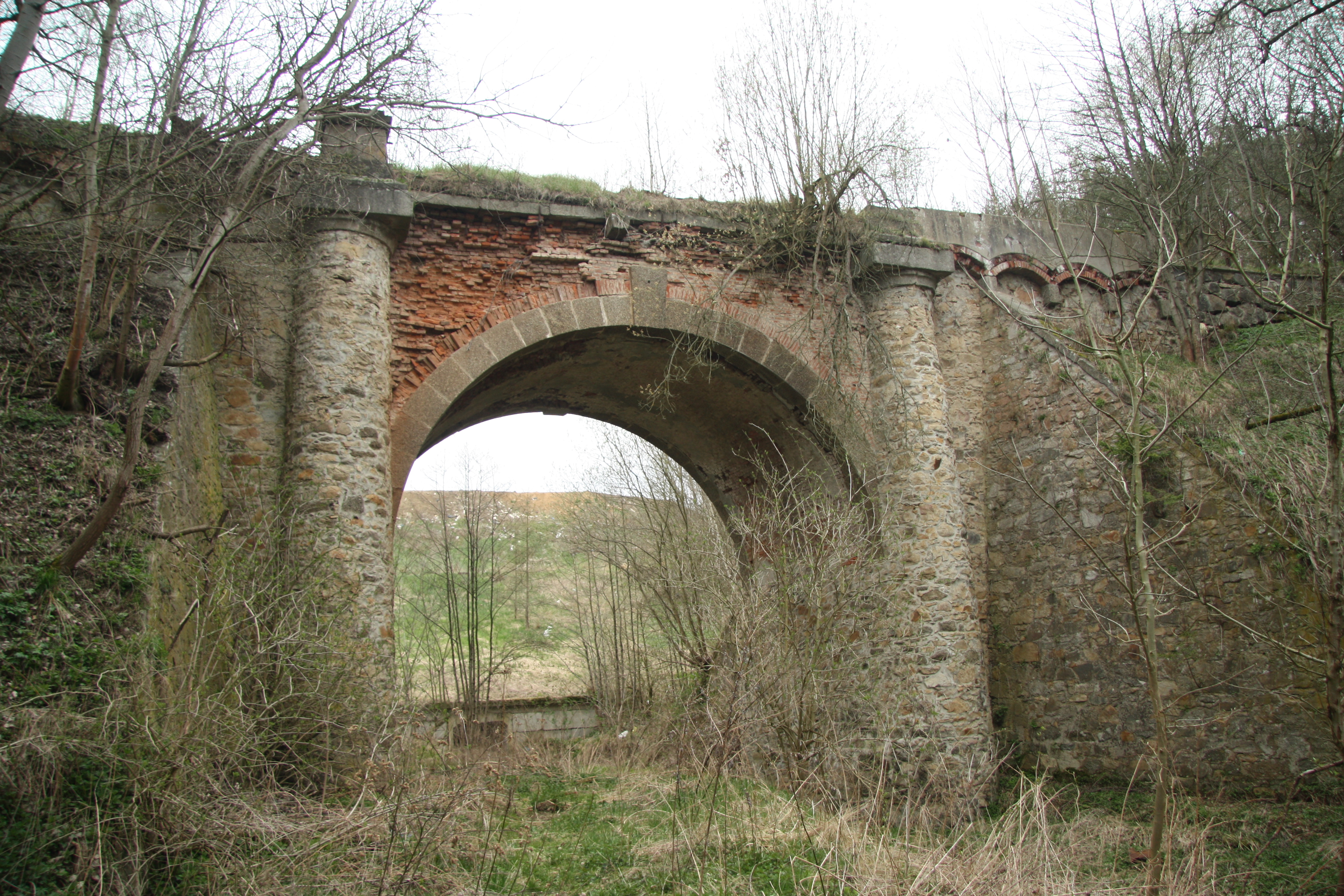 Loupežnický bridge near Velké Meziříčí, Žďár nad Sázavou District.